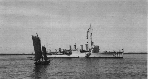 The U.S. Navy destroyer USS Alden (DD-211) at Chefoo, China, 1 January 1937, with a small fishing junk in the foreground.